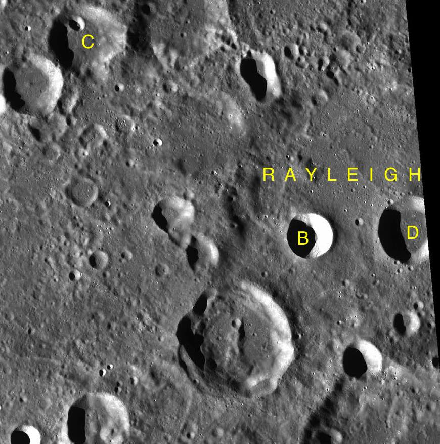 Part of the chart LAC-45 used for the presentation